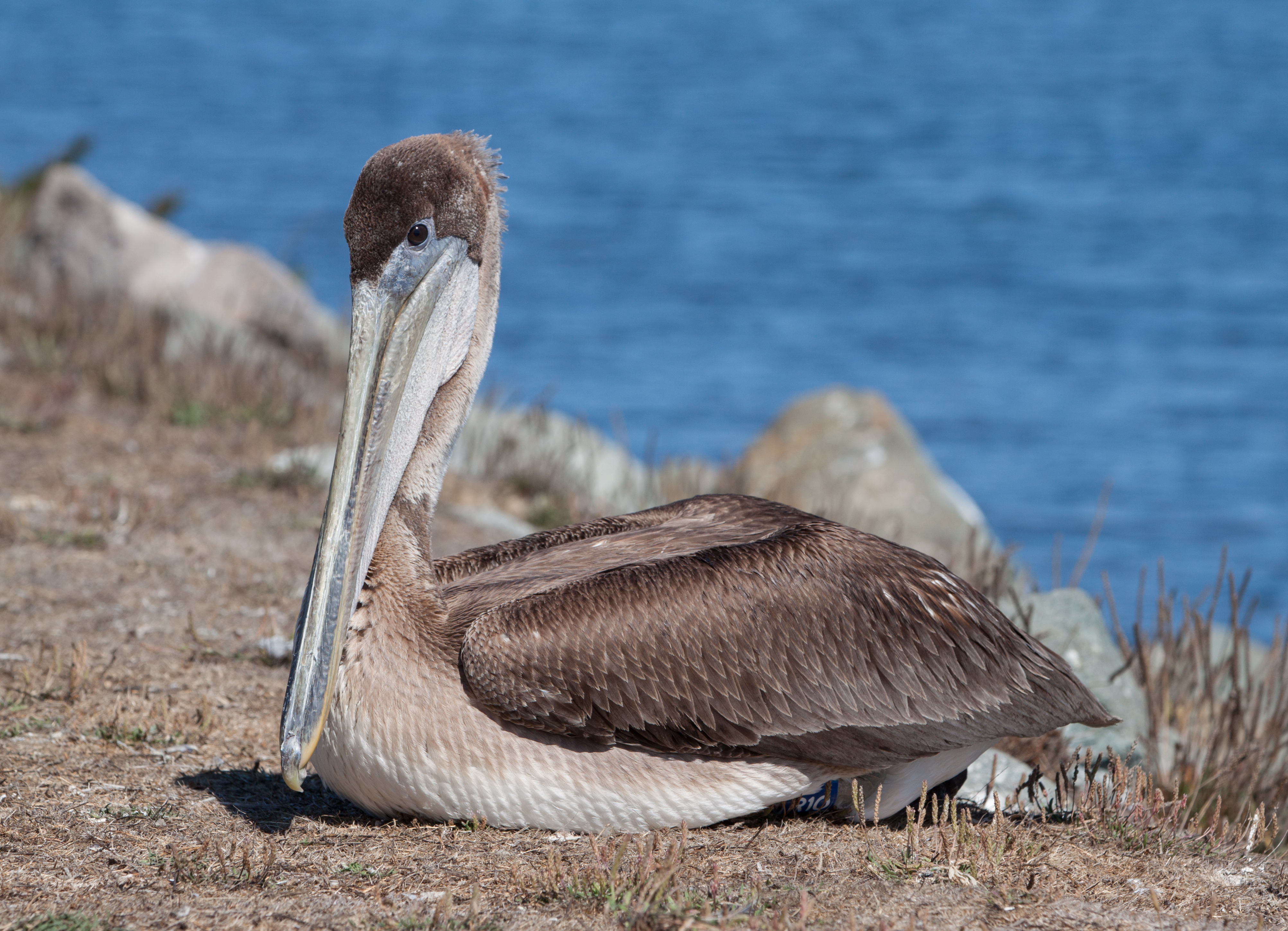 Juvenile Brown Pelican (Pelecanus occidentalis) at Bodega Harbor, California, United States. After reporting this beringed bird at the International Bird Rescue Center San Francisco, its Director Emeritus Jay Holcomb sent me this message: “Thanks so much for reporting this bird. It came into our clinic for rehabilitation on July 17, 2012. It was thin, weak and contaminated with fish oil from the fish processing stations. It was released at Ft. Baker under the Golden Gate Bridge on August 17, 2012.”